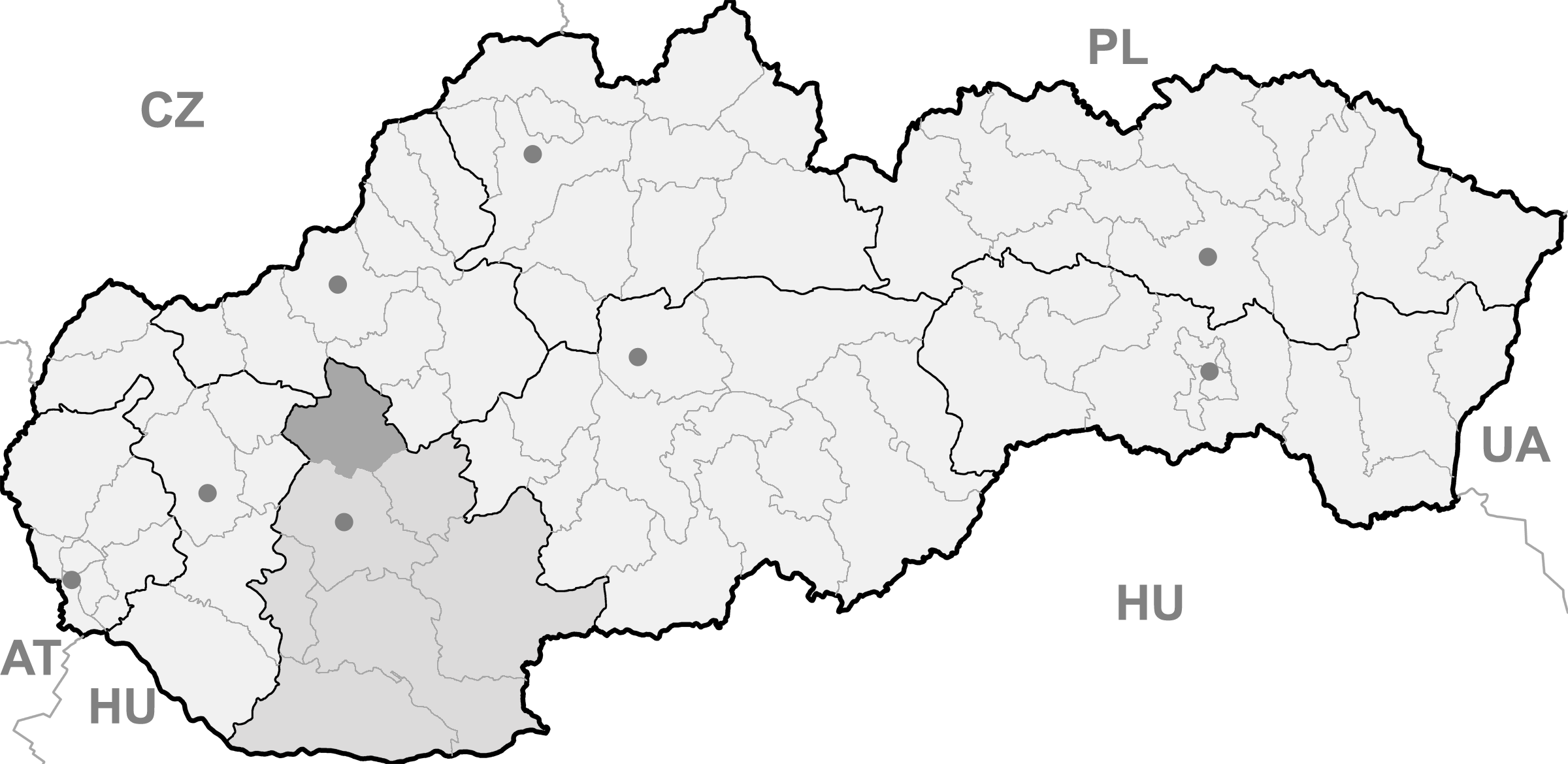 Map of Slovakia, Topolcany district and Nitra region highlighted